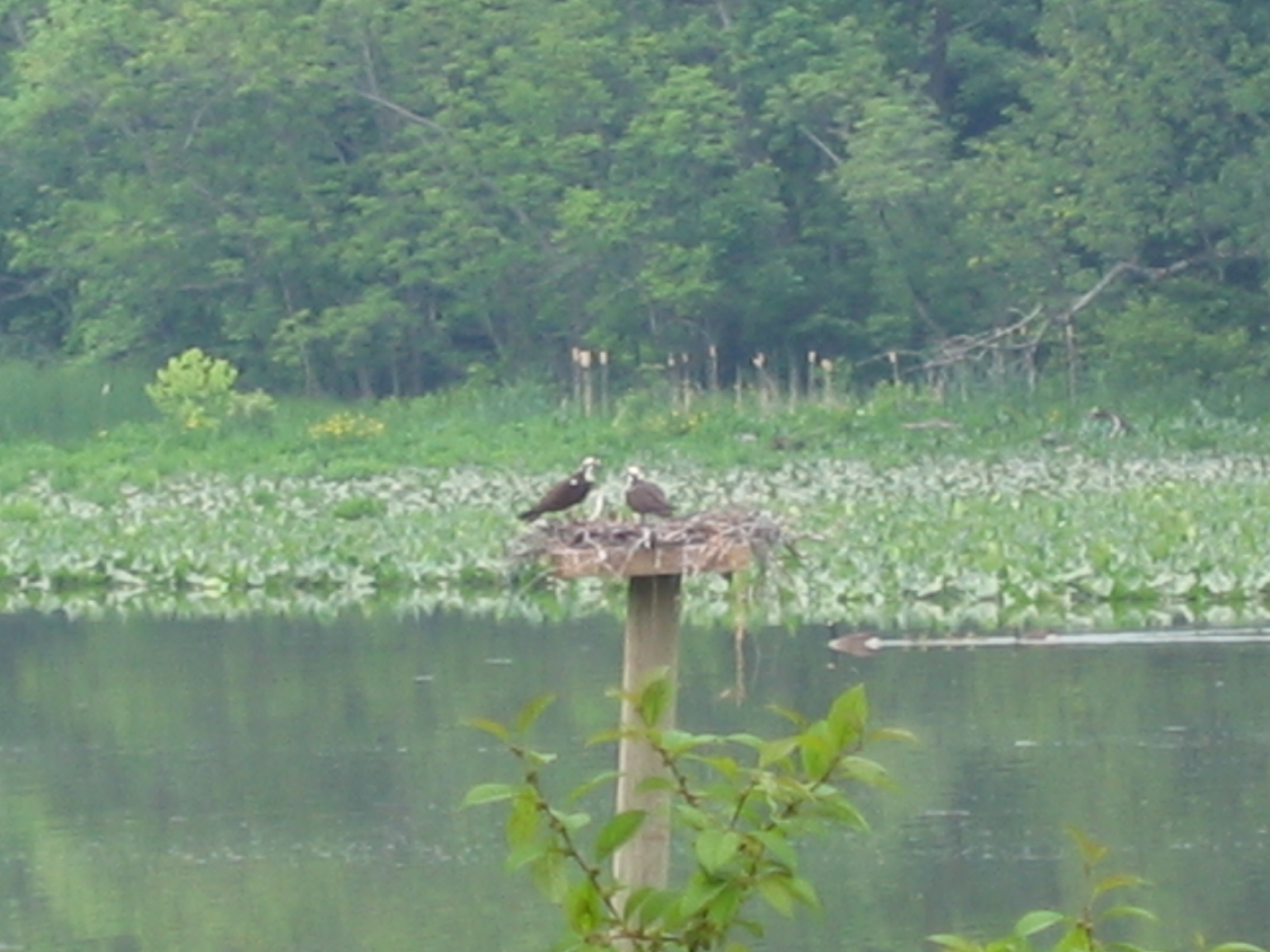 Ospreys and Canada Geese on Little Hunting Creek (Fairfax County, Virginia)